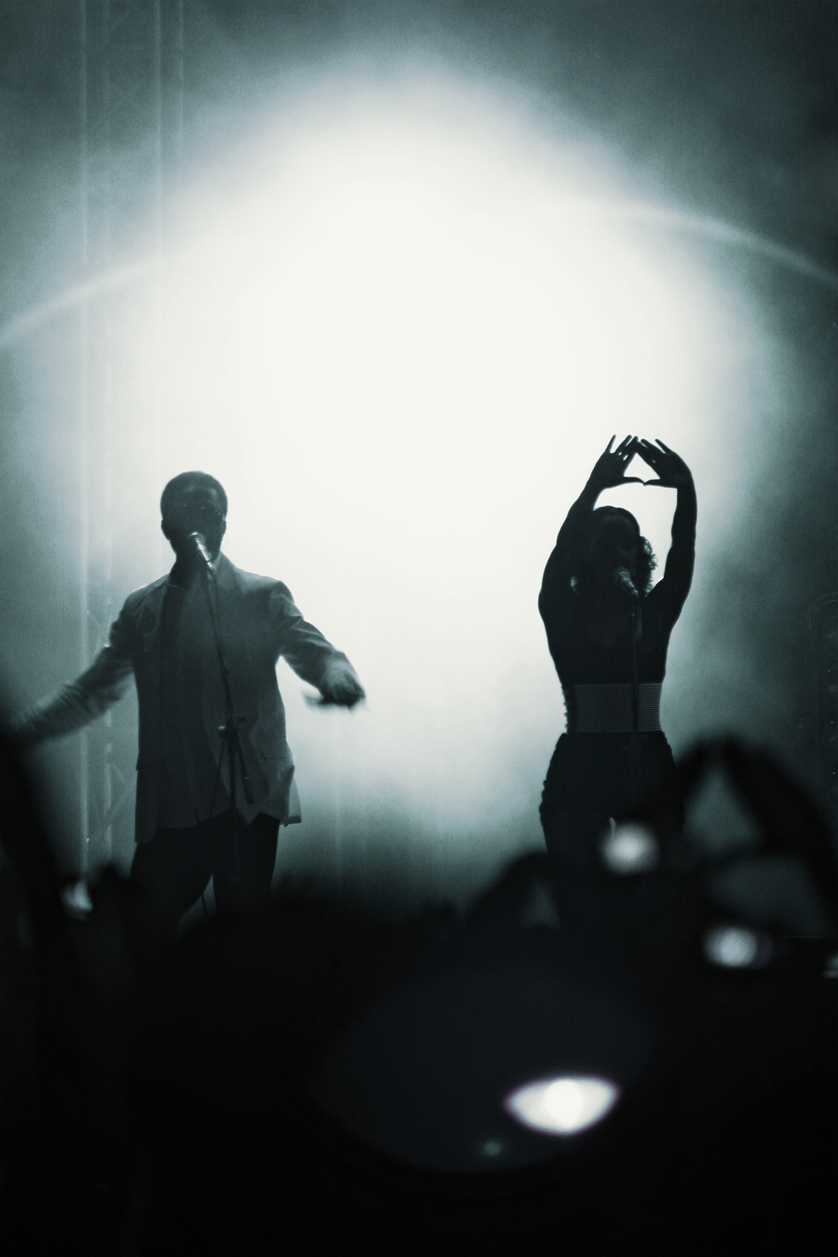 Kanye West's back up vocalist... silhouete from stage light